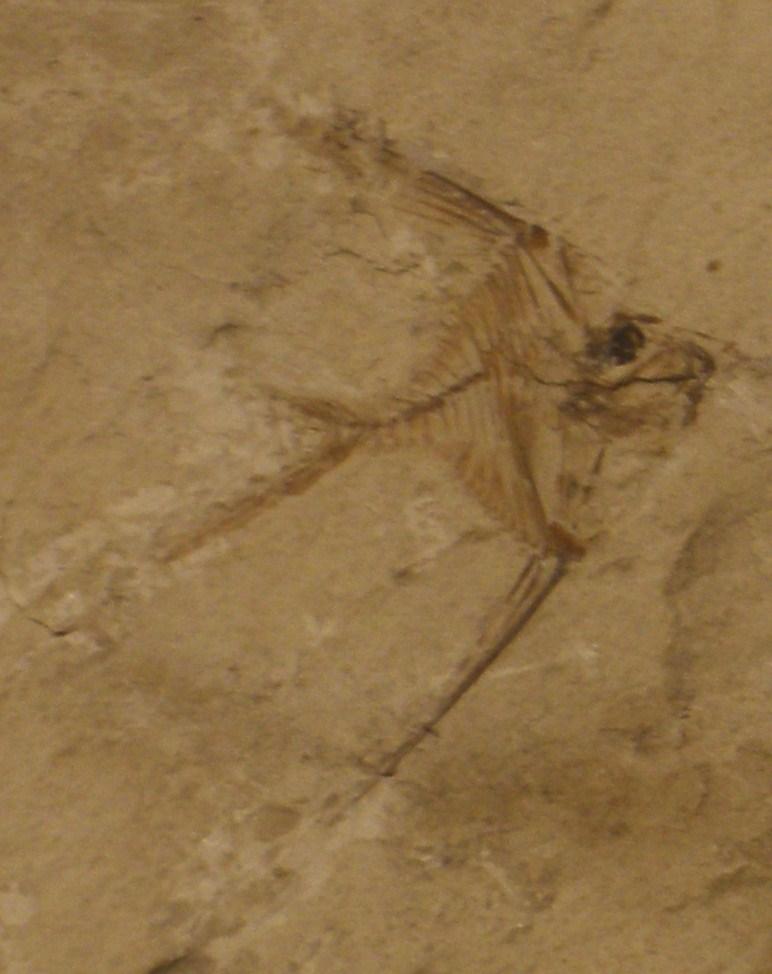 Fossil of Antigonia veronensis, an extinct fish